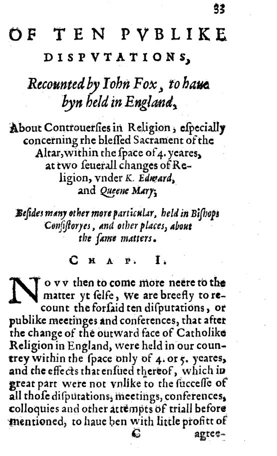 Page 33 from A Review of ten pvblike dispvtations or conferences held within the compasse of foure yeares vnder K. Edward and Qu. Mary. By N. D. (1604), a work by Robert Persons.